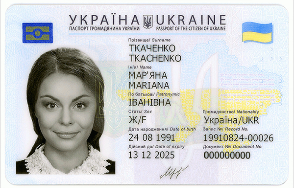 Specimen of a Ukrainian identity card or 'Passport of the Citizen of Ukraine' (issued from 1 January 2016 onwards).